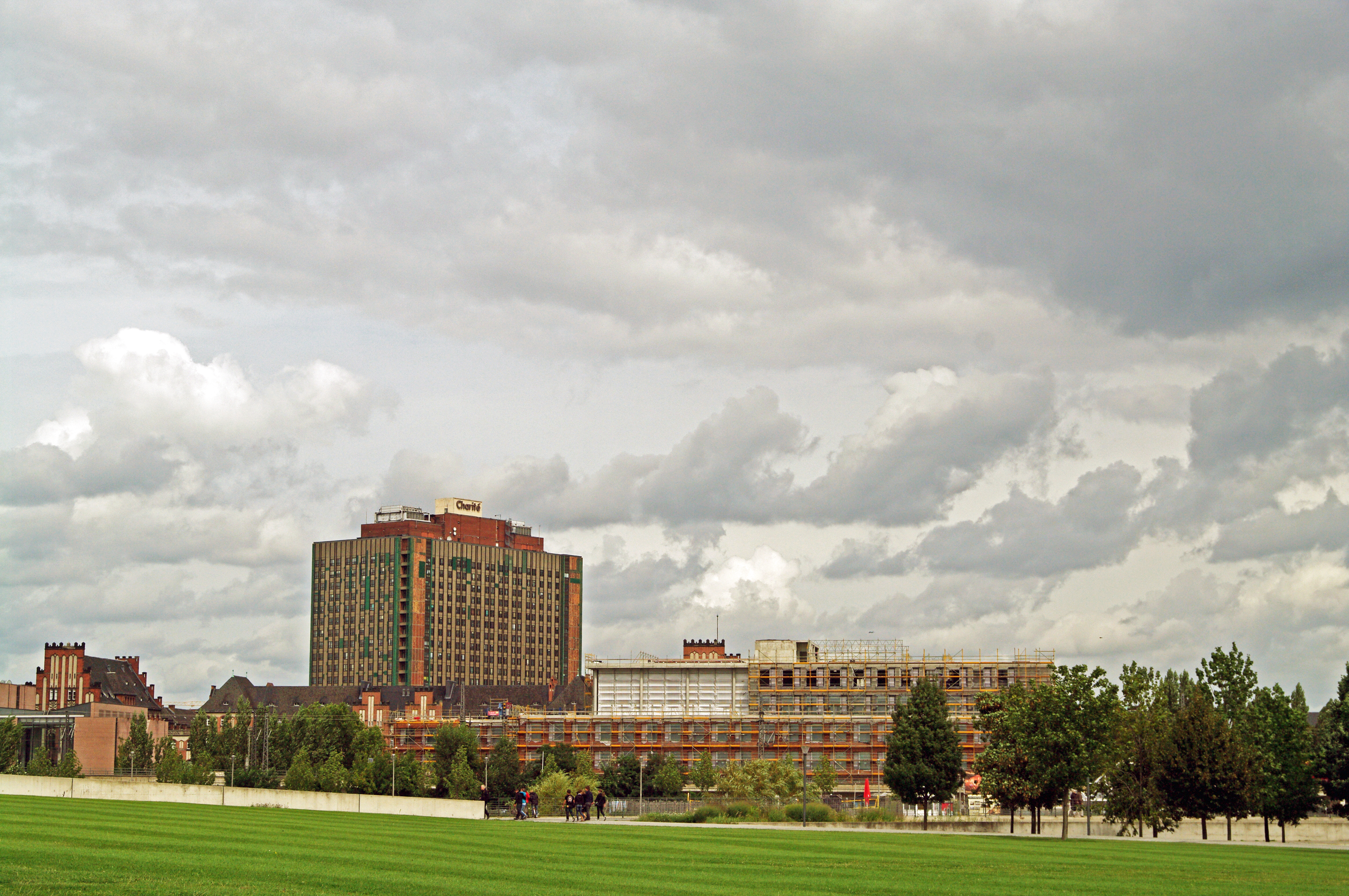 View across the Spreebogenpark in central Berlin towards the Charite.